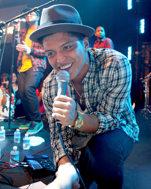 Bruno Mars performing in Las Vegas, Nevada on September 18, 2010